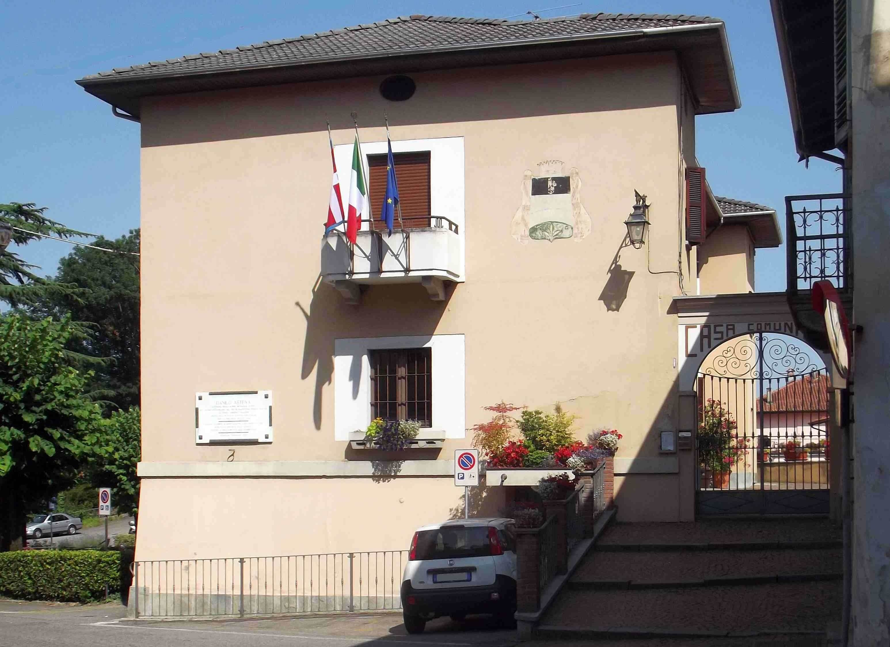 Graglia (BI, Italy): town hall